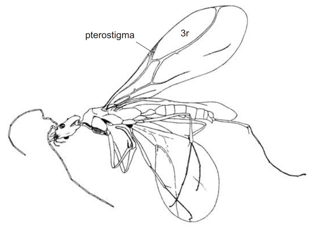 Fig. 4. Dolichoderine ant Leptomyrmula maravignae (Emery, 1891), the holotype male, from the Sicilian Amber, body in lateral view (after Emery 1891).